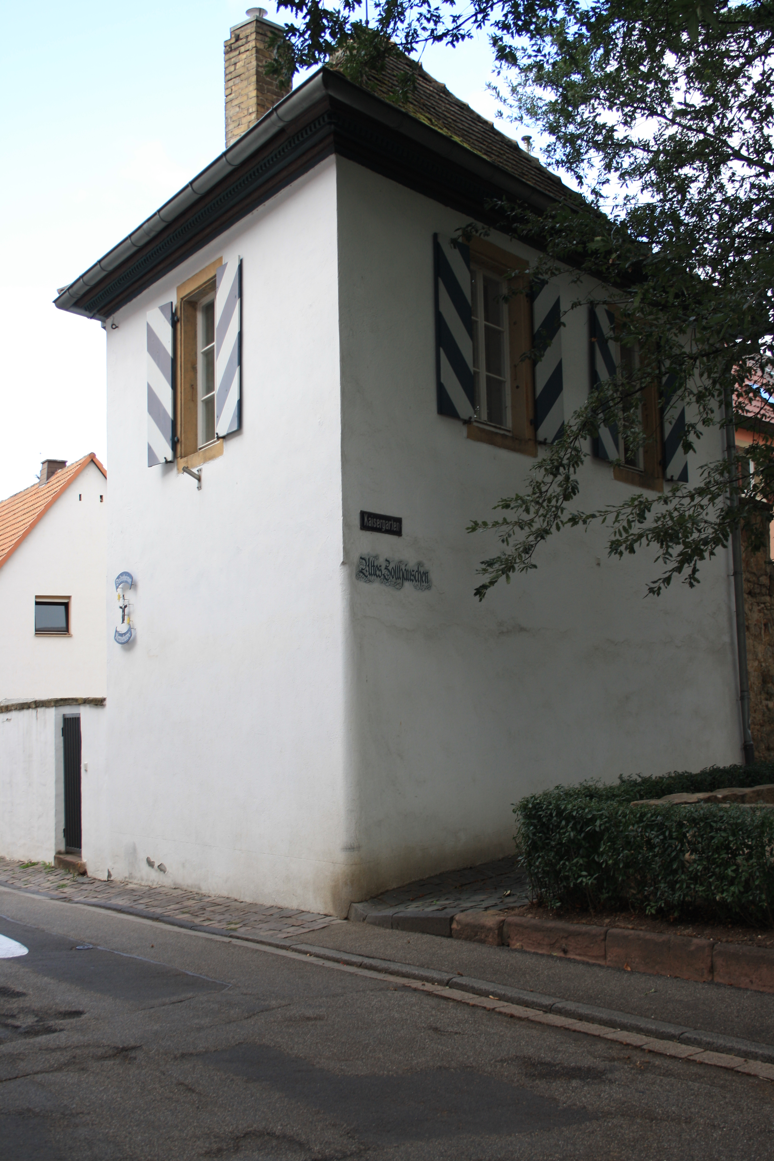 Germany, Altes Zollhäuschen, Deidesheim